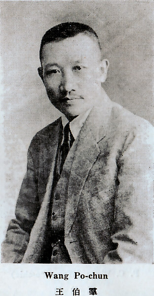 Wang Boqun (Wang Po-chün) (1885 - 1944)